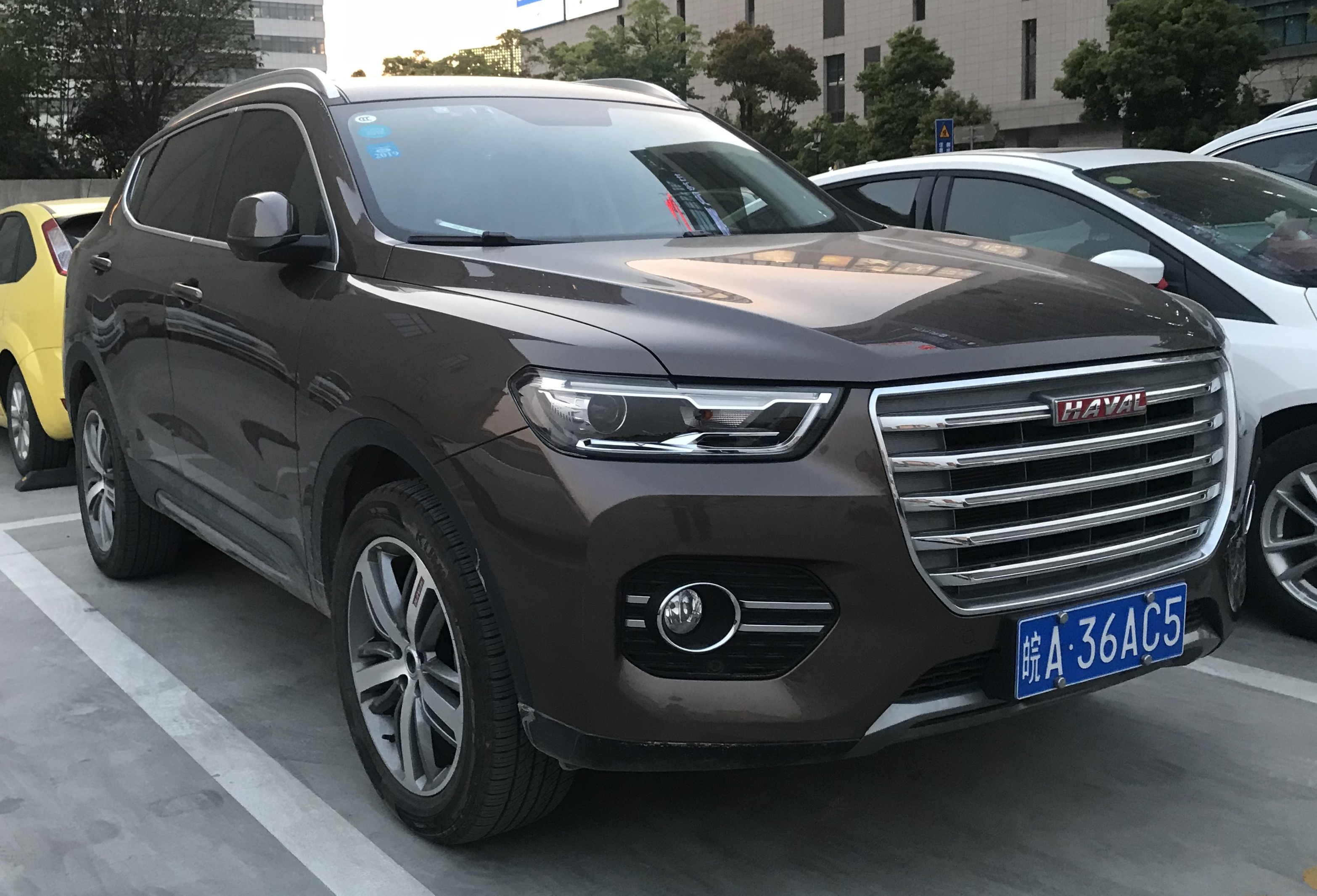 Haval H6 II Red Label